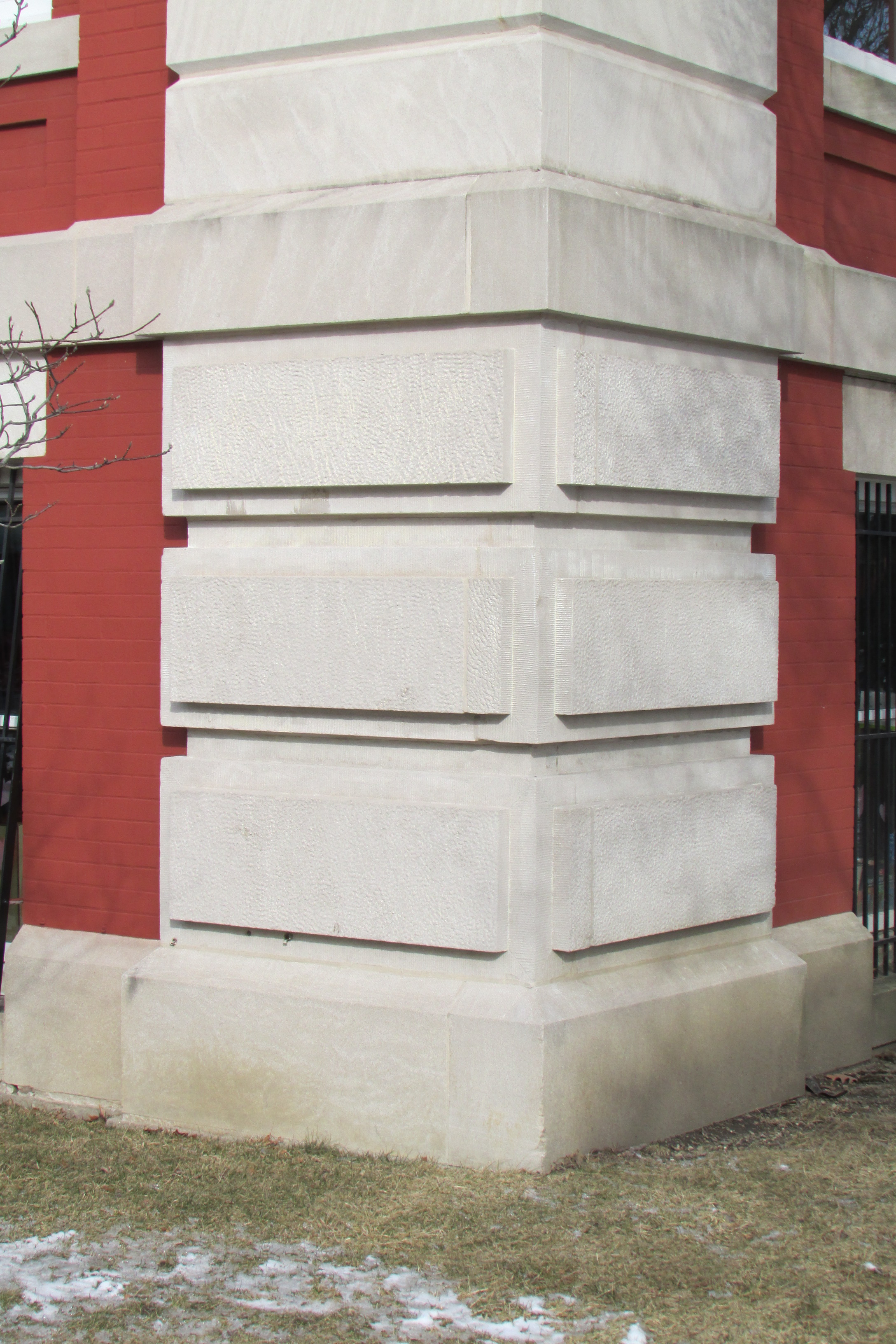 Quoins on the south wing of the Lake County Courthouse, Crown Point, Indiana.